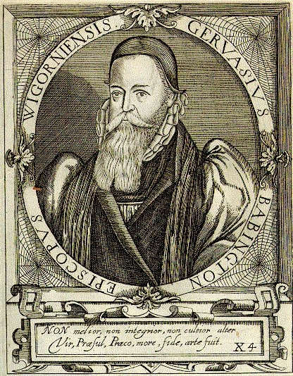 From Bibliotheca Chalcographica published 1652-1669.